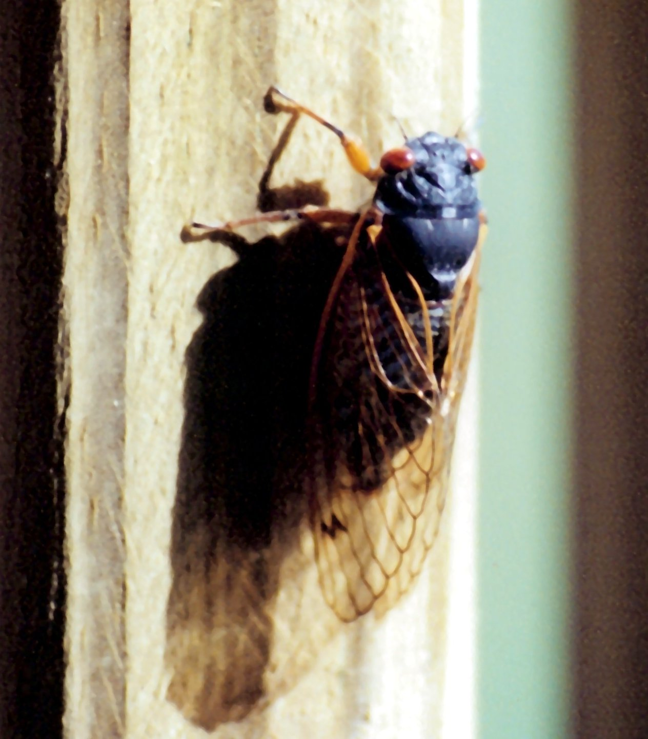 17-year cicada. Photo by Veracious Rey, 2004.